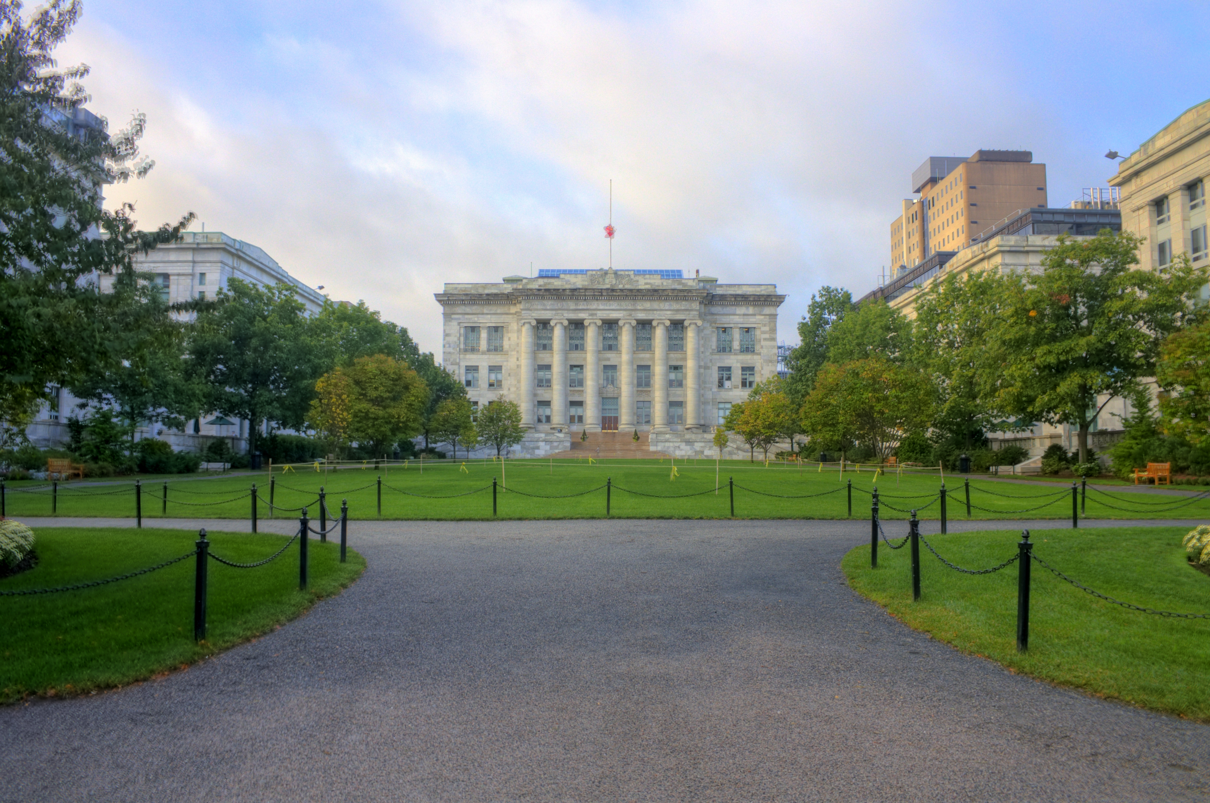 Harvard Medical School Quadrangle - High Dynamic Range (HDR) Image taken in fall 2010.